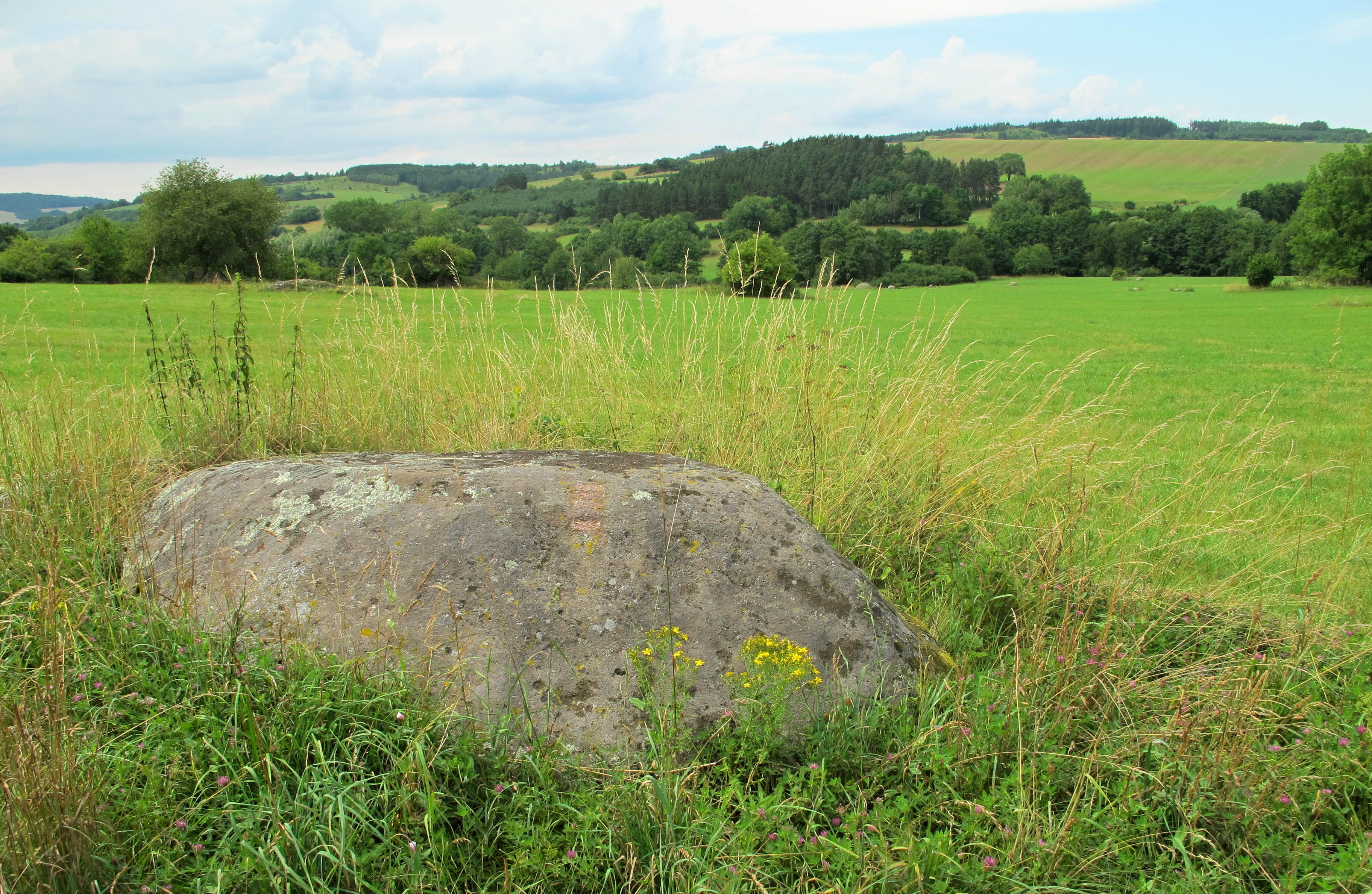 Nature park Petrovicko near Petrovice, Příbram District in Czech Republic